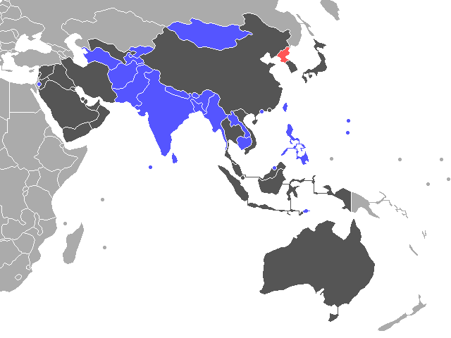 Eligible in AFC Challenge Cup Ineligible in AFC Challenge Cup (Never participated) Former participants (Currently ineligible) Not an associate member of AFC